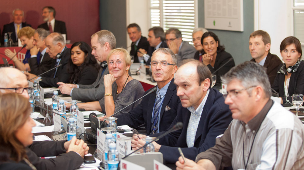 International Conference to Promote the resolution of the conflict in the Basque Country